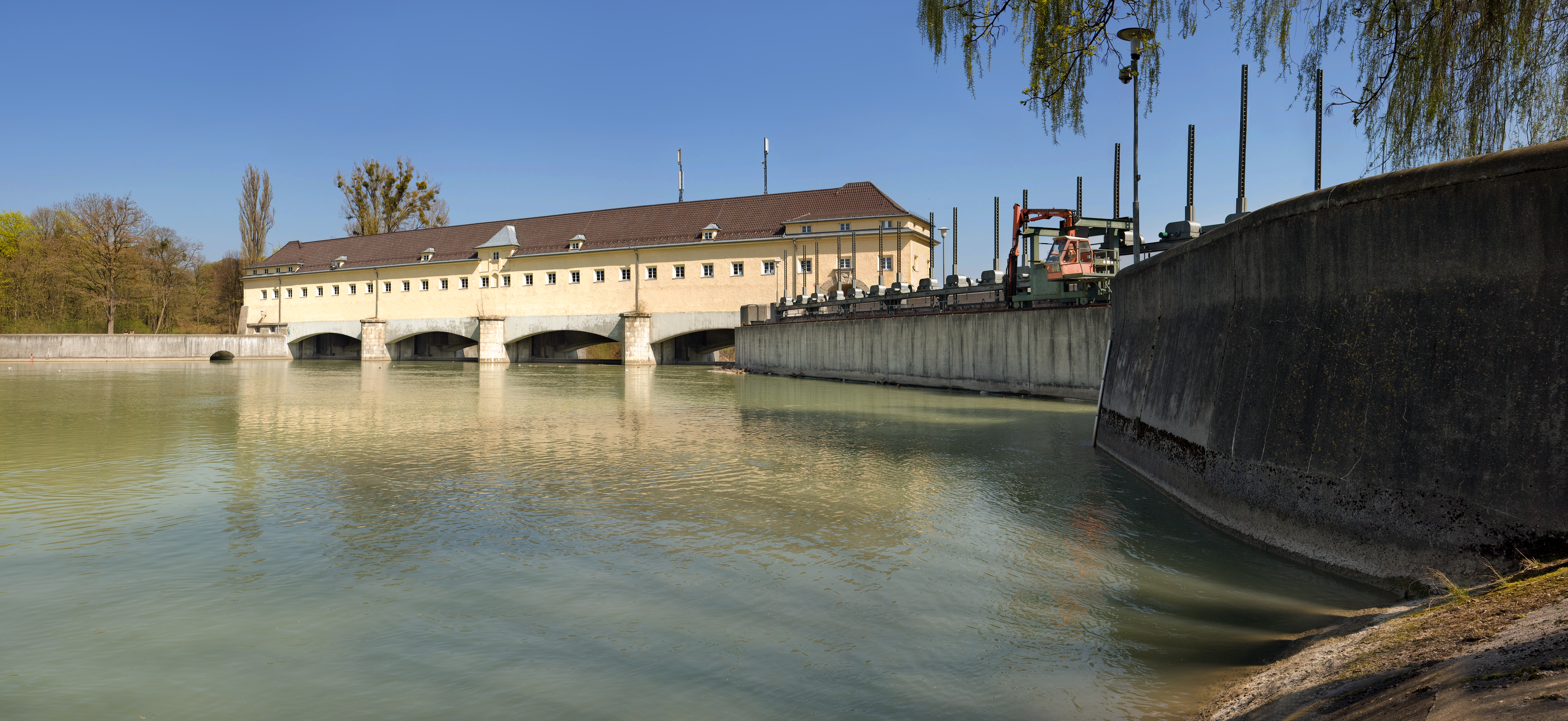 Upstream of Oberföhring weir in the Isar river, Oberföhring, Munich, Germany. The new powerplant is downstream, behind the weir.